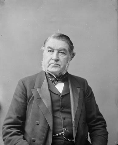 Rt. Hon. Sir Charles Tupper - Member of Parliament (Cape Breton, N.S.) - Secretary of State (Later Prime Minister of Canada)